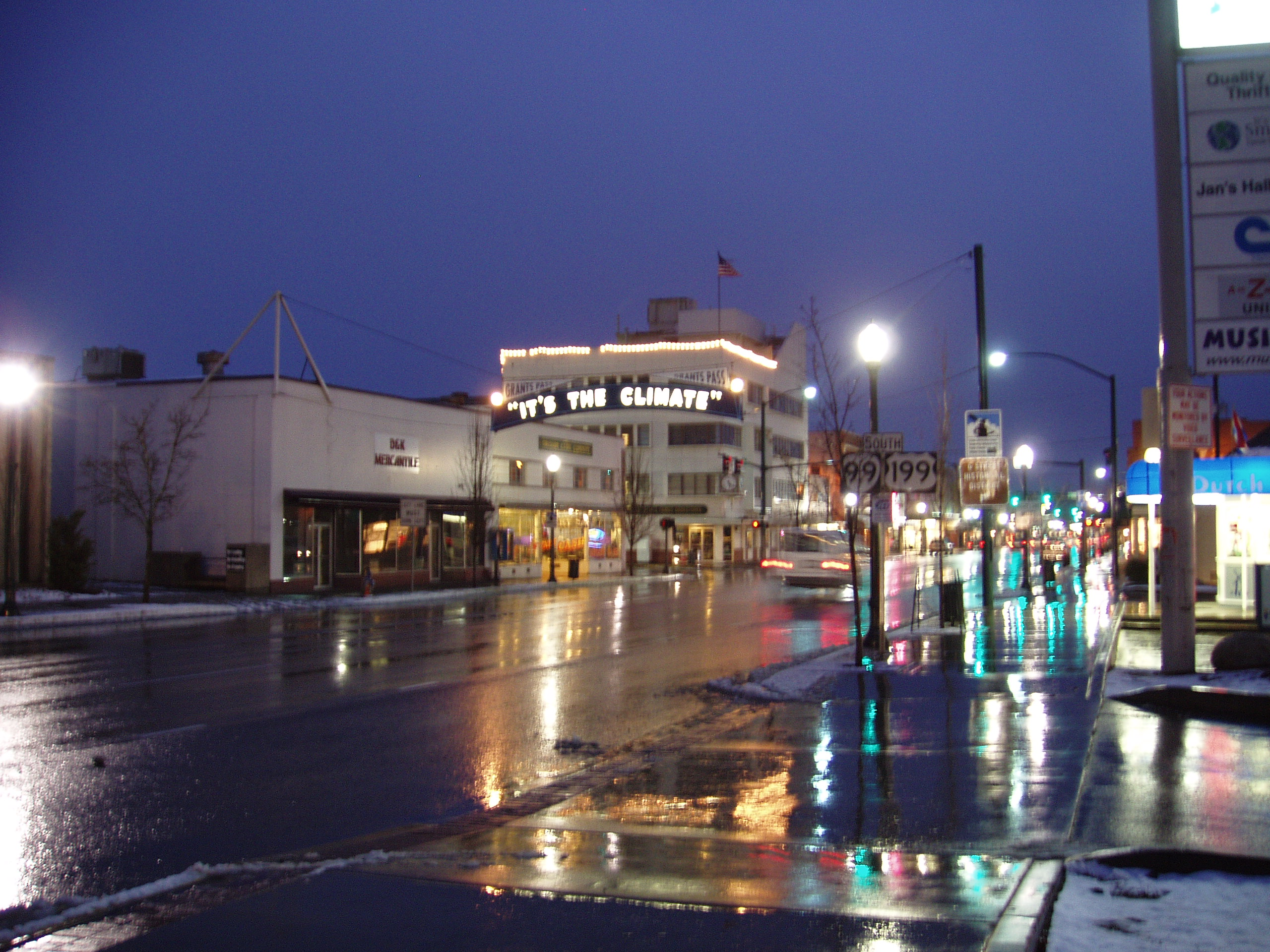 The "It's The Climate" sign in Grants Pass, Oregon